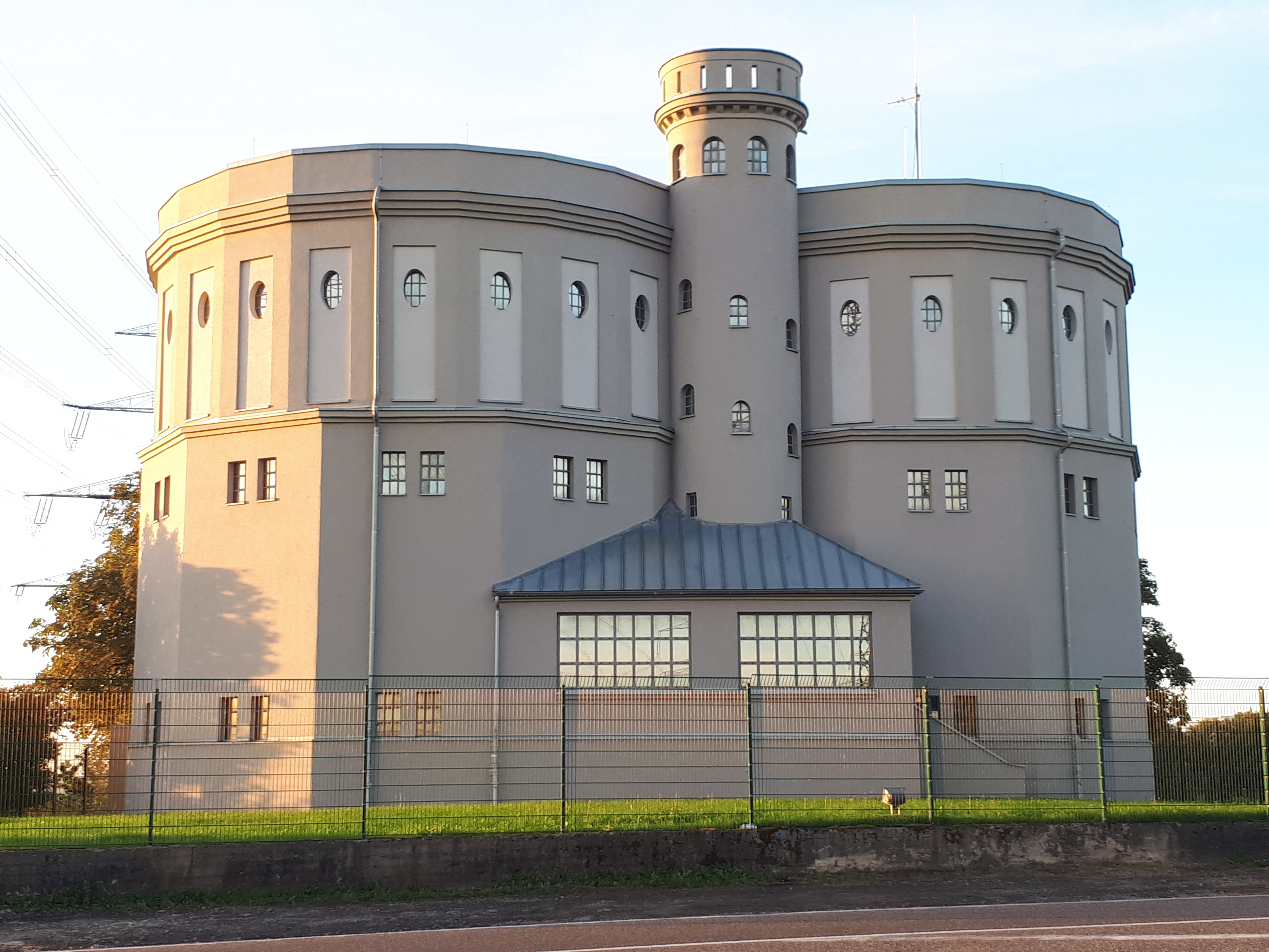 The water tank Göttelborn (front)